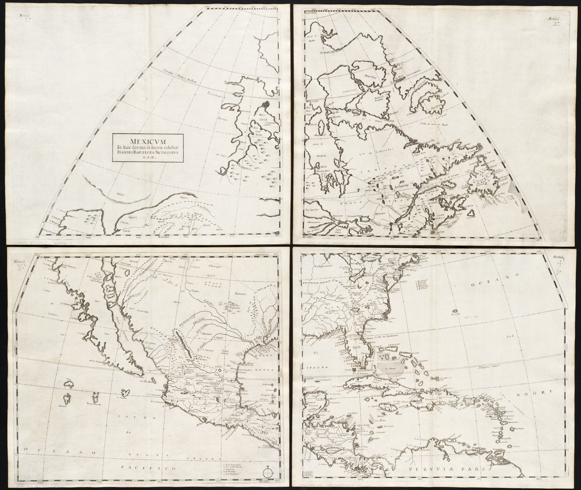 Zoom into [ this map] at . Author: Nicolosi, Giovanni Battista Publisher: G.B. Nicolosi Date: [1671] Location: North America Scale: Scale [ca. 1:9,500,000] Call Number: G3300 1671.N5